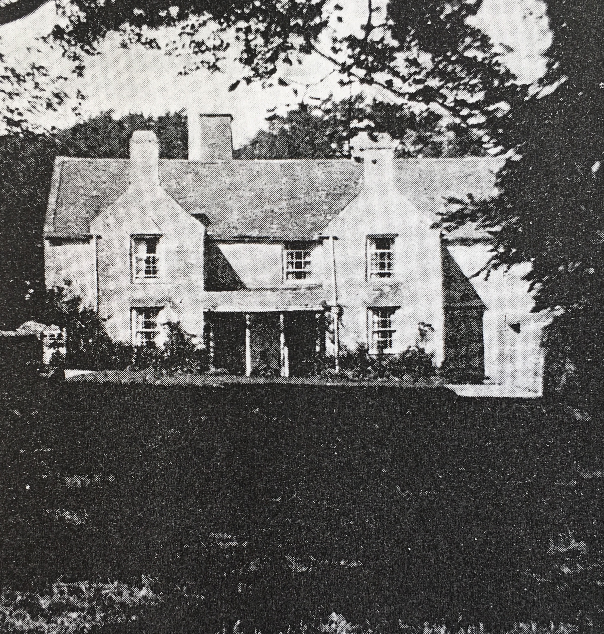 Image published to illustrate an article published in 1937 on Bulkeley of Dronwy in Trans Ang Antiq Soc